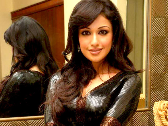 Madhuri Bhattacharya at Celebs grace the Prem Kaa Game bash